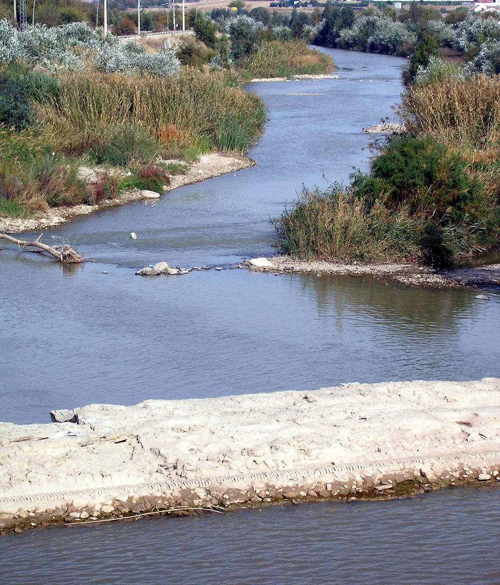 Genil River in Écija